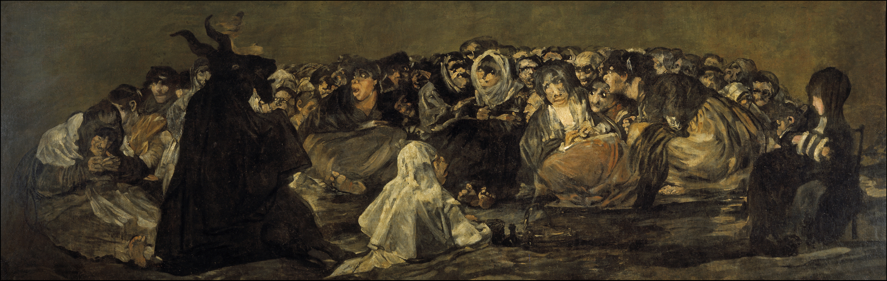 This painting is part of the "Black Paintings" series and depicts a coven of witches.